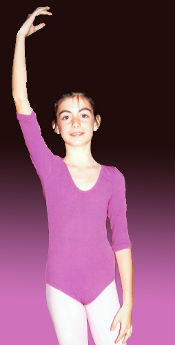 This picture belongs to me, I scanned it and edited it so that it looks a bit more professional. Its an old picture of mine doing ballet so there are no copyright issues about it.